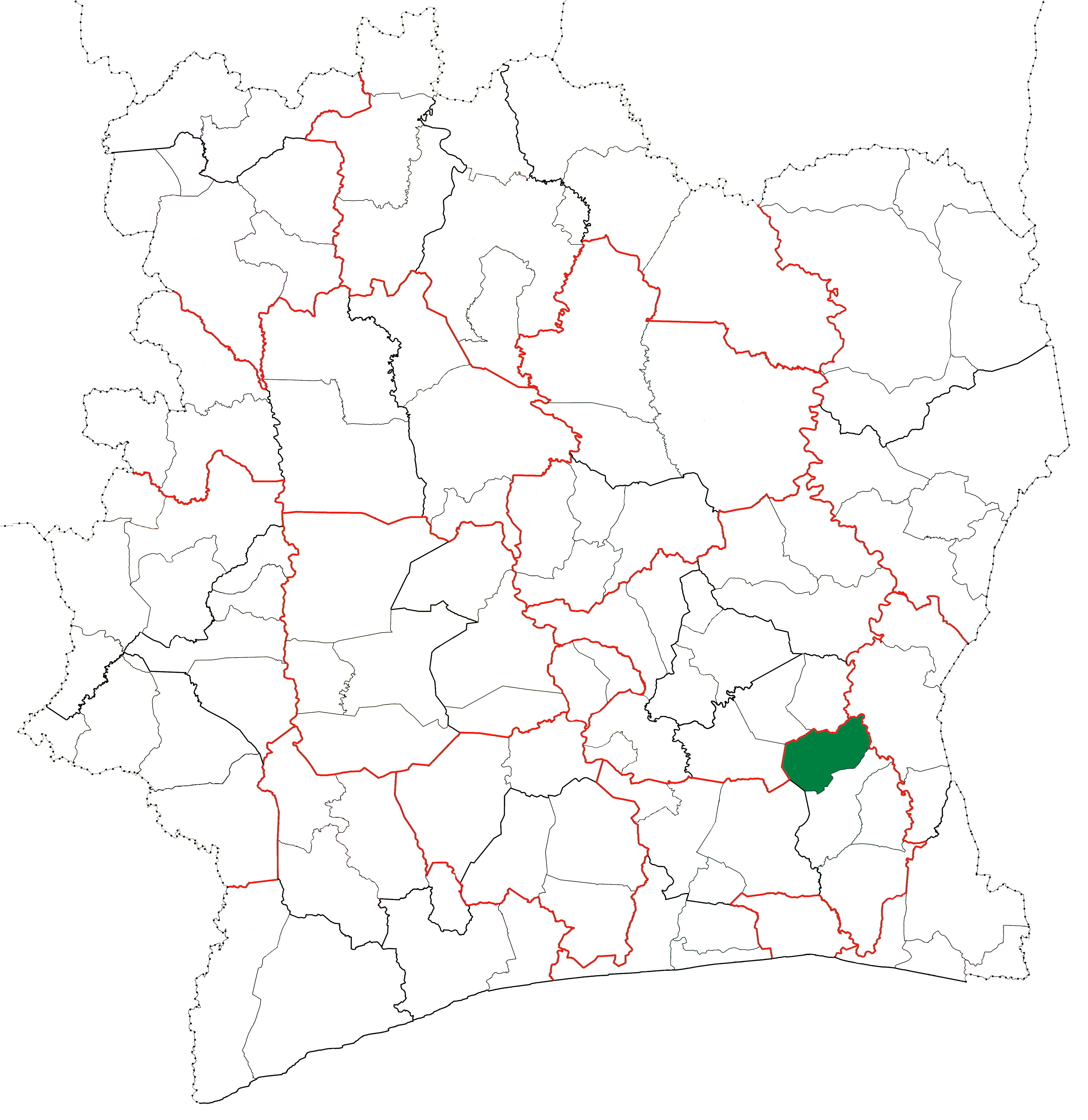 Locator map for Akoupé Department in Côte d'Ivoire.